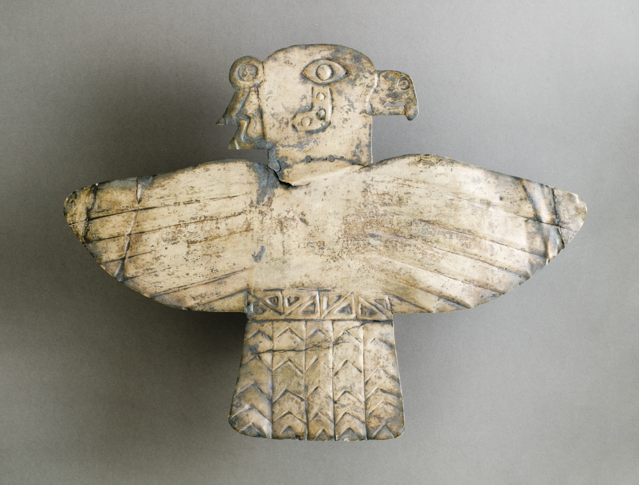 Peru, South Highlands, Wari, Tiwanaku, 600-900 Sculpture; plaques Silver 7 7/8 x 10 3/8 in. (20 x 26.35 cm) Purchased with funds provided by Lillian Apodaca Weiner (M.2003.31) Art of the Ancient Americas